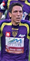 Zoran Pavlovič at Ljudski vrt 2008 opening match